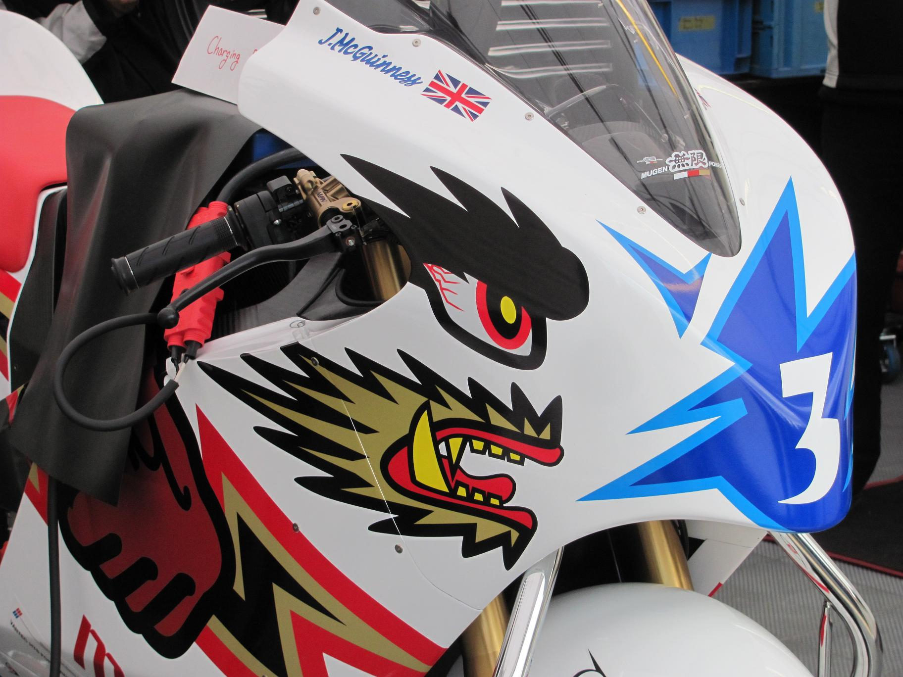 Mugen Honda Shinden Electric Bike Wednesday Evening Practice TT Grandstand. Practice session for the 2013 Isle of Man TT.